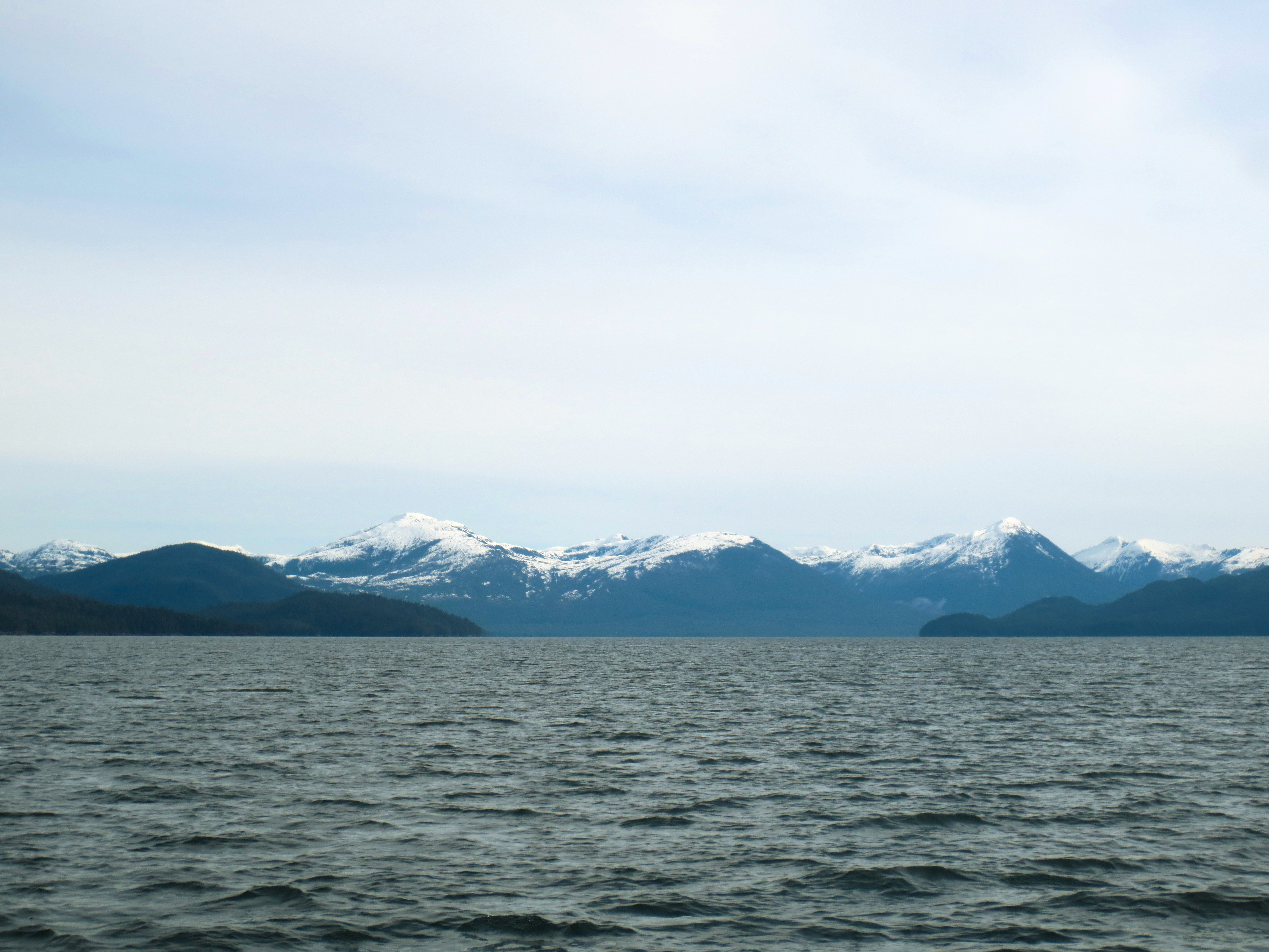 Looking Southeast across Marcus Passage, British Columbia, Canada, from near the Lawyer Islands, Smith Island is to the left, and Kennedy Island is to the right